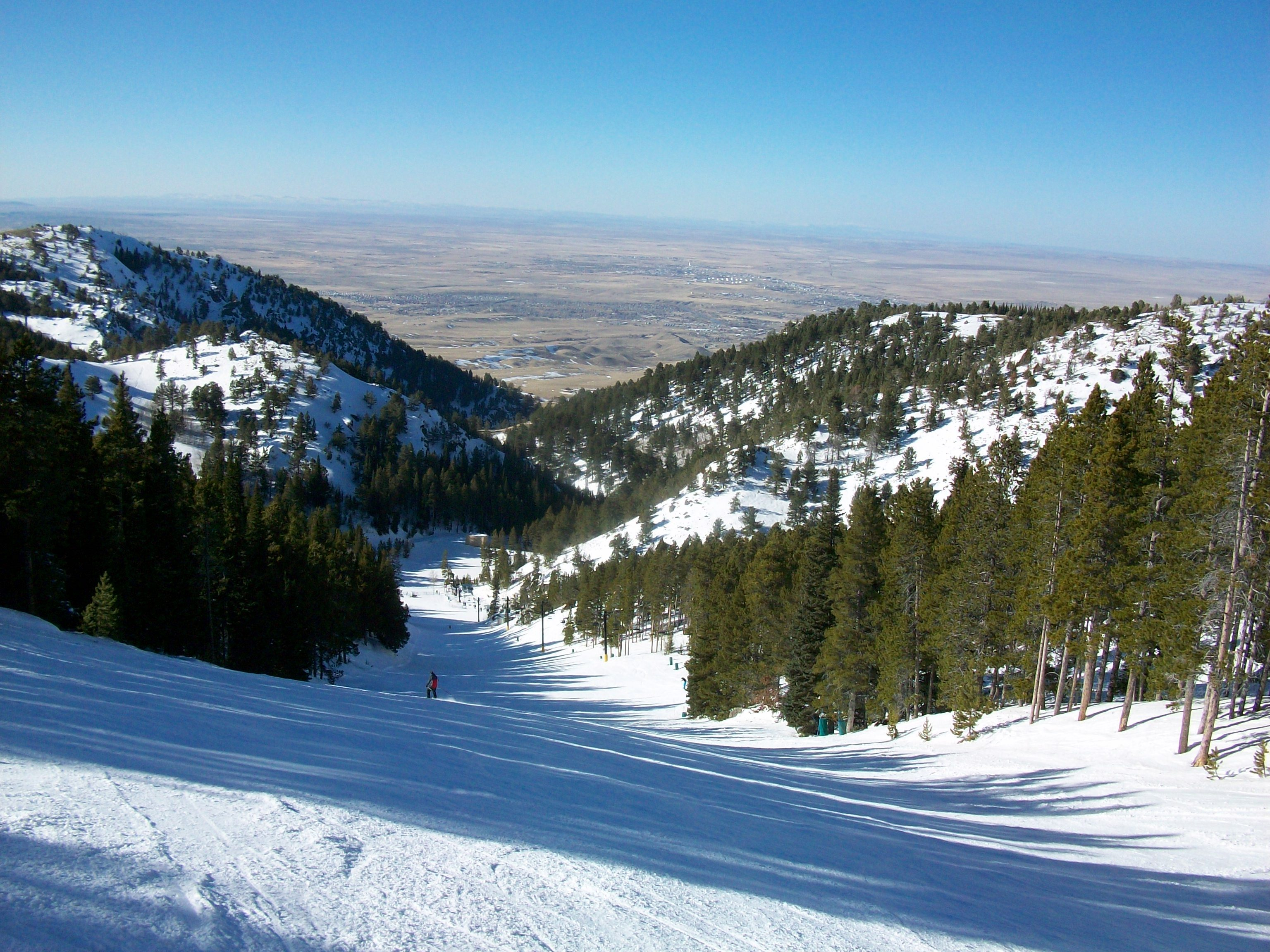 Looking toward Casper, Wyoming from the top of a run at Hogadon Ski Area, on Casper Mountain.